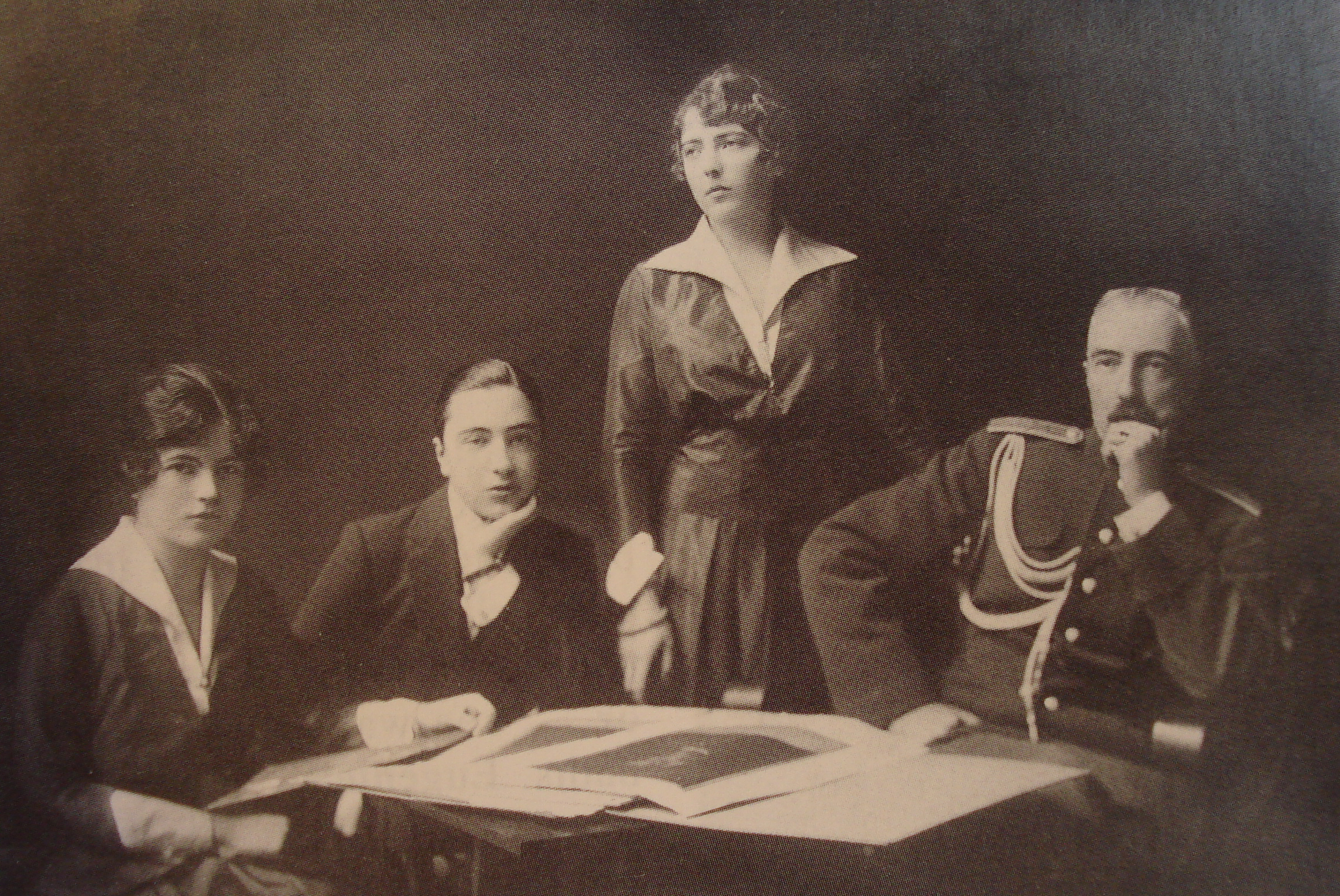 Grand Duke Michael Mikhailovich of Russia (on the right) with his children. From left to right: Nadejda, Michael and Anastasia de Torby Other version: File:Grand Duke Michael Mikhailovich of Russia with his children.jpg